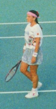 Photo taken by Sharni08 (myself) at Brisbane Hardcourt Championships 1994.